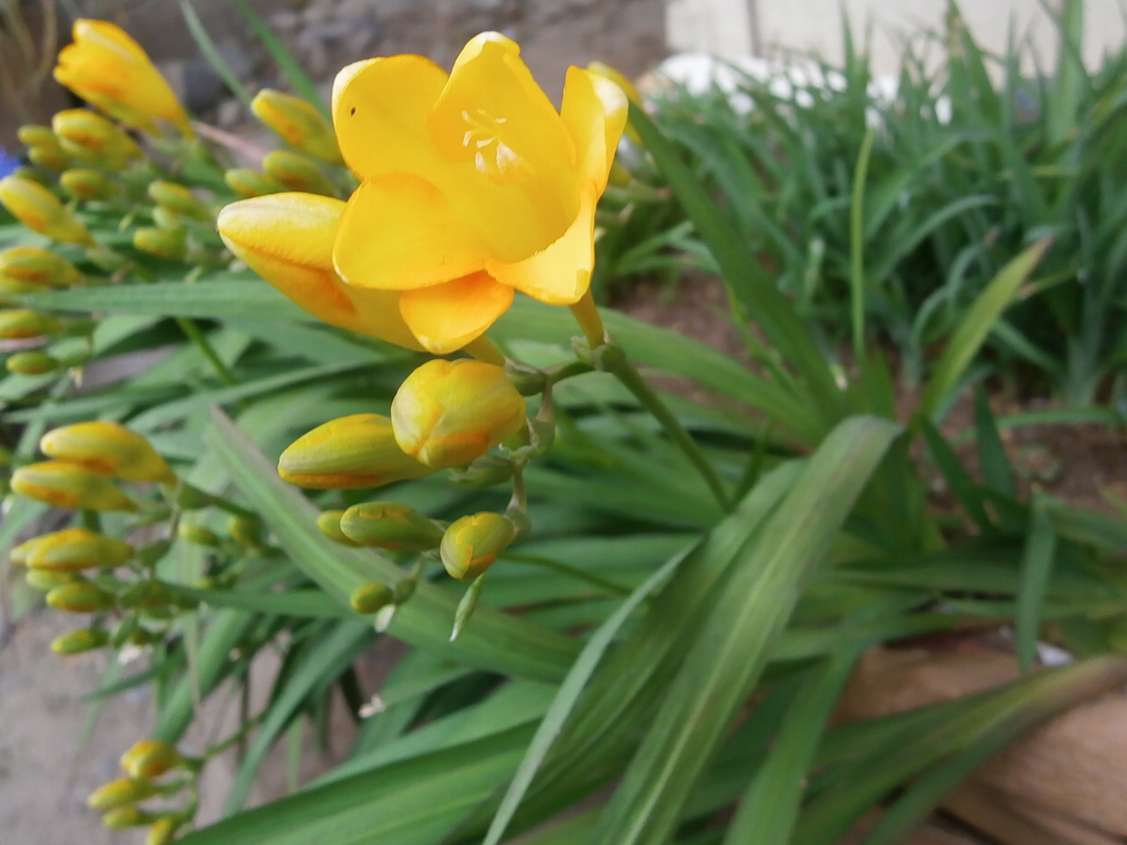 Freesia refracta